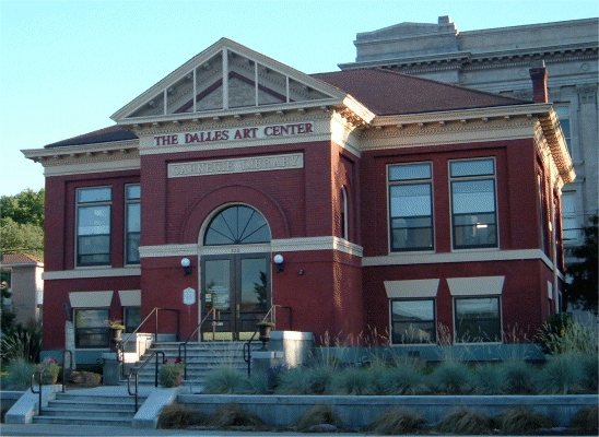 The Dalles Art Center (old Carnegie Library Building), 4th and Washington streets, The Dalles, Oregon. Taken July 2, 2006, by Fr. John-Mark Gilhousen (uploader, User:Jgilhousen) with a FujiFilm FinePix A330 digital camera (3.2 megapixel). Cropped, contrast enhanced, and resized in PaintShop Pro 7.